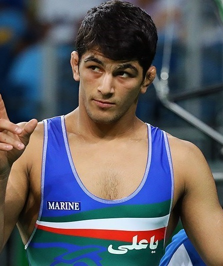 Hassan Yazdani